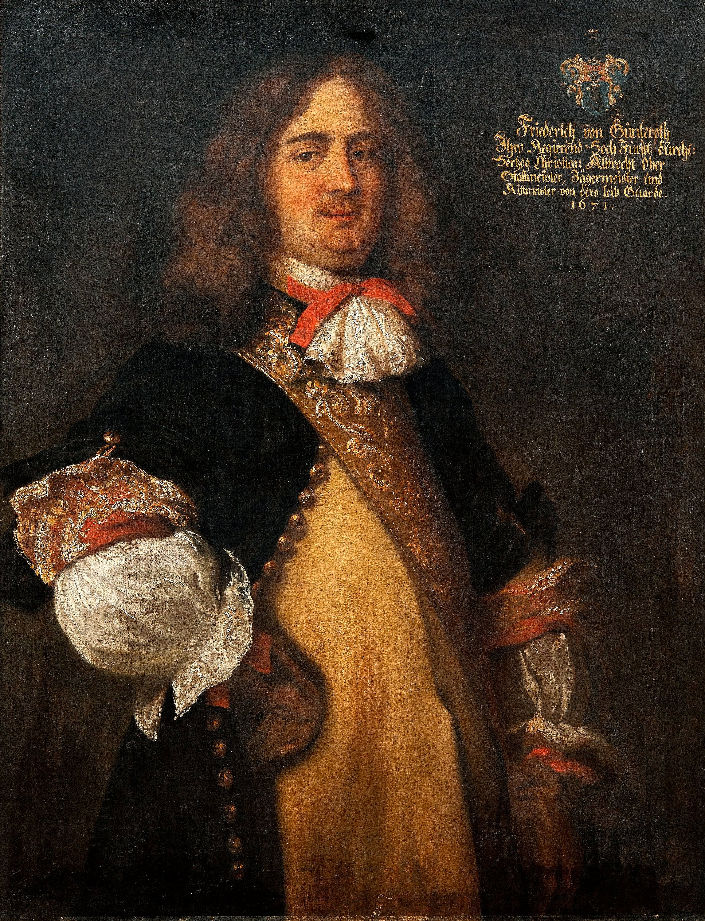 Portrait of Friedrich von Günterot. After Jürgen Ovens. Oil on canvas. 107 x 81.5 cm. (42.1 x 32.1 in.)